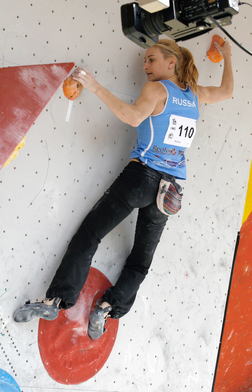 Olga Bibik during qualifications at the IFSC Boulder Worldcup Vienna 2010.